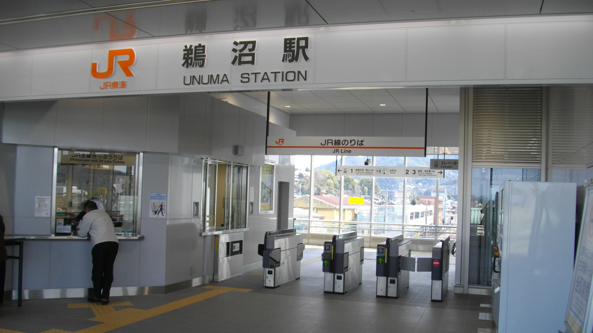 JR Unuma Station New Gates